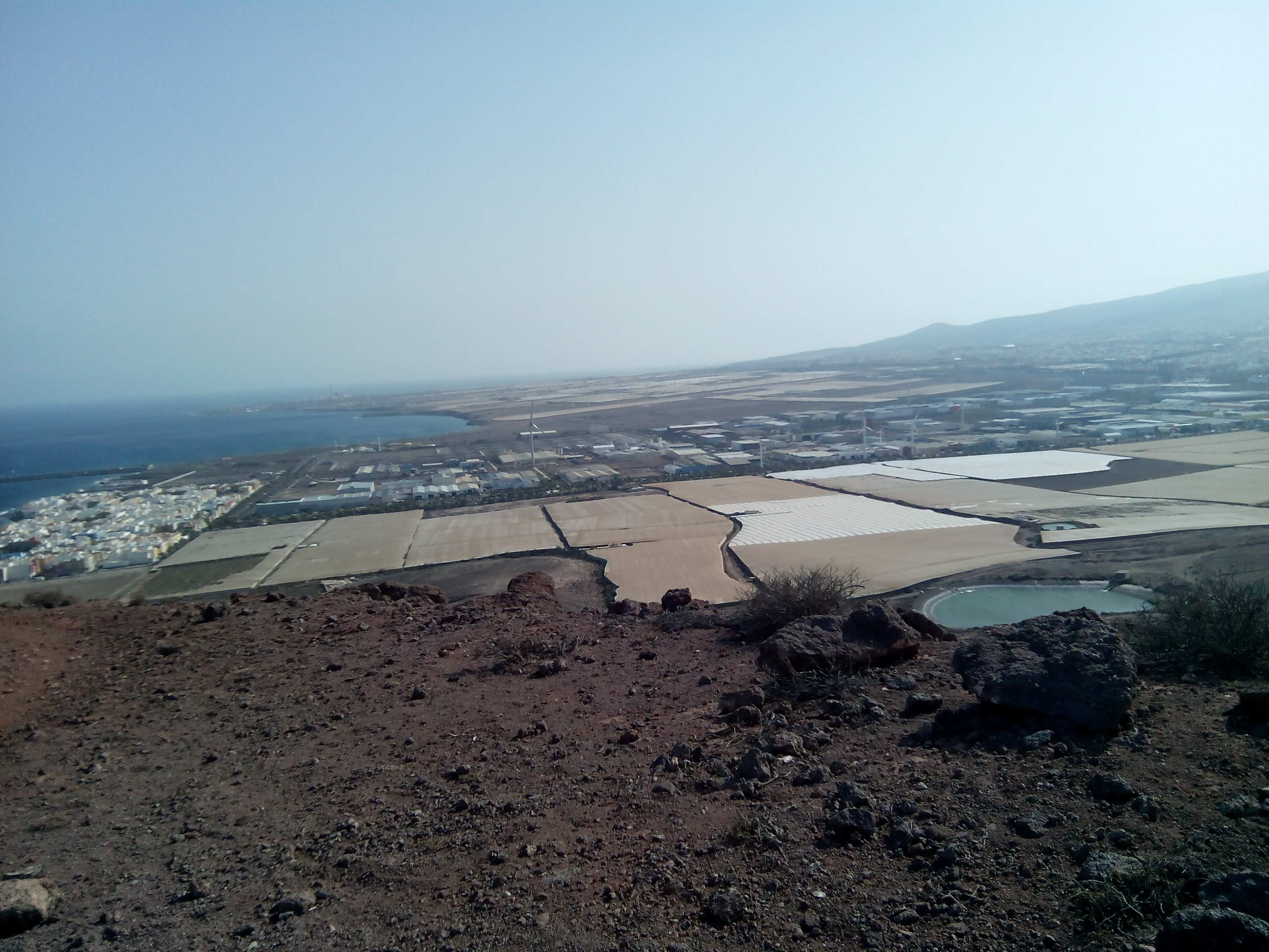 View of Vecindario from Montaña de Arinaga